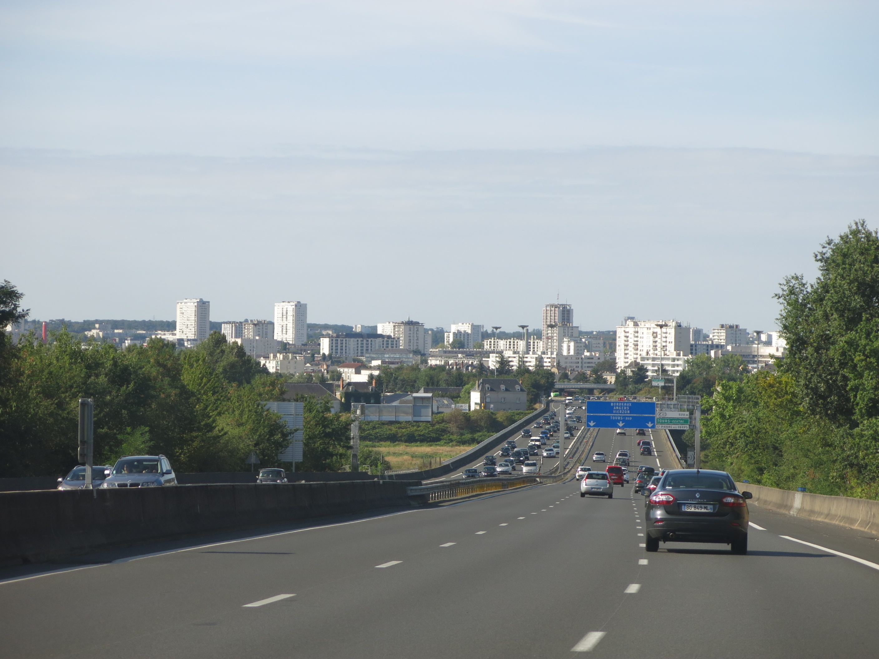 The town of Tours (Indre-et-Loire, France) seen from the A10 highway which crosses the town.